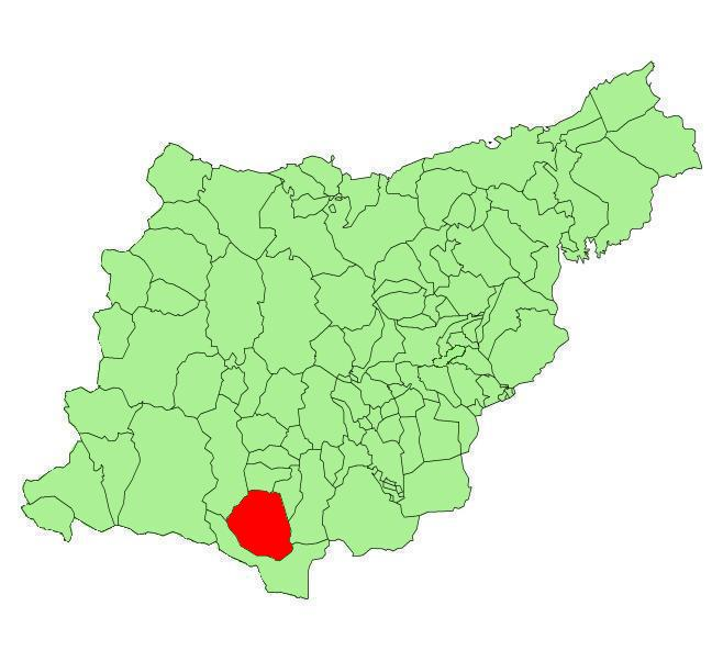 Zegama municipality in the province of Guipuzcoa